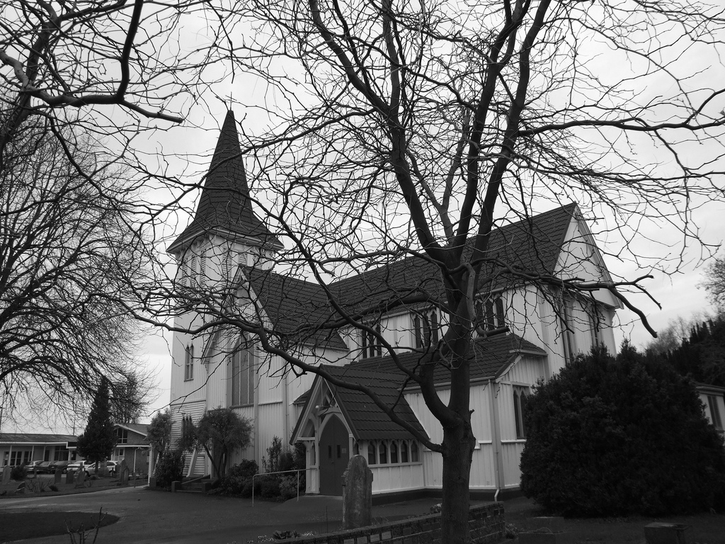 St Paul's Anglican Church in Winter (2008), taken in Papanui, Christchurch, New Zealand. New Zealand Historic Places Trust Category II; register number 7635.